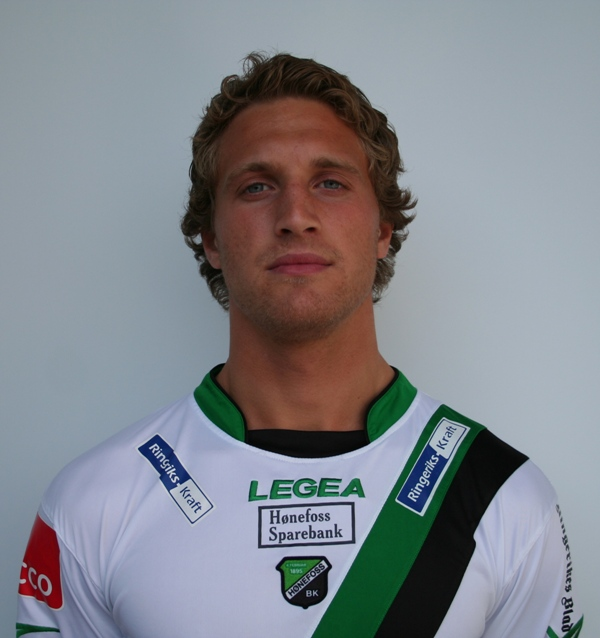 Kenneth di Vita Jensen, norsk fotballspiller som spiller for Hønefoss Ballklubb.